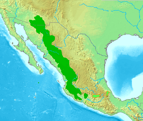 Distribution Map of Picoides arizonae et Picoides stricklandi